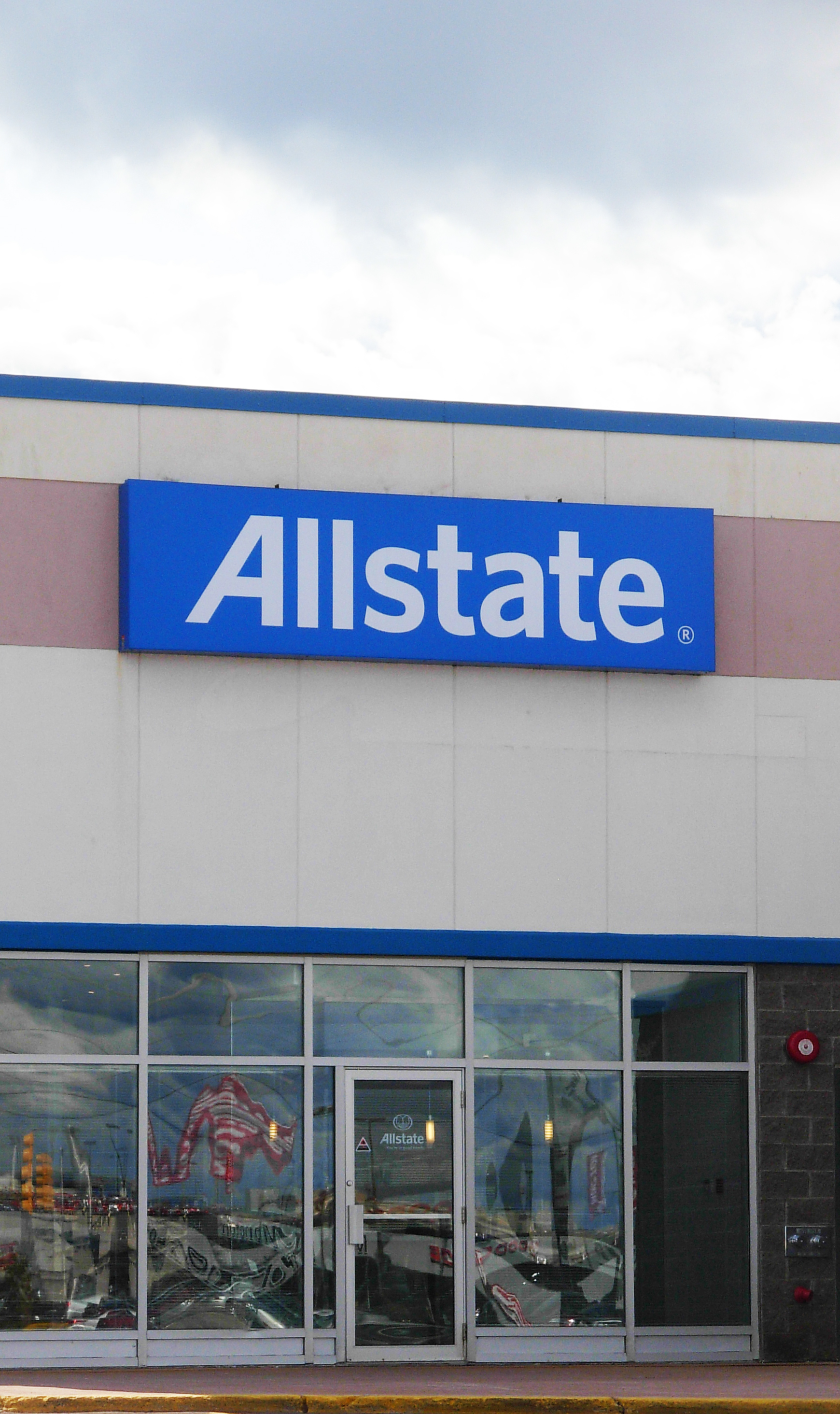 An Allstate store in Moncton